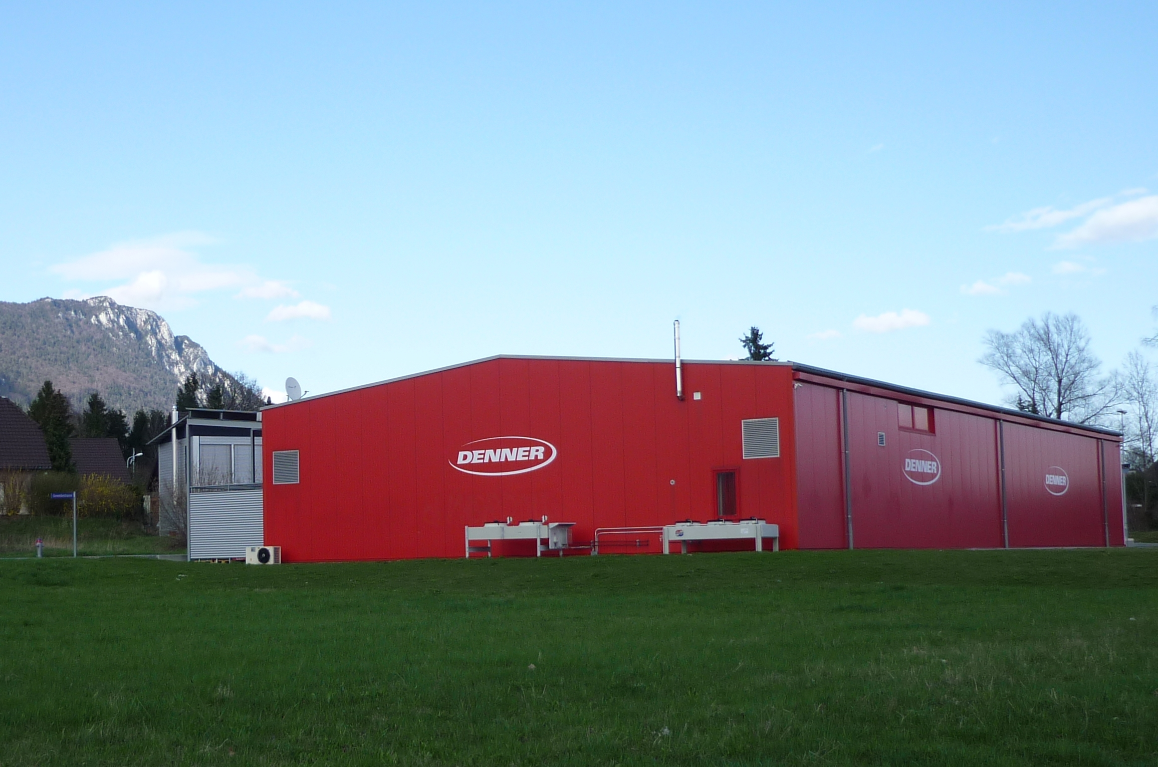 Denner food store in Bellach, Canton of Solothurn, Switzerland. In the background: Balmflue, part of the Weissenstein range (first Jura mountain chain).